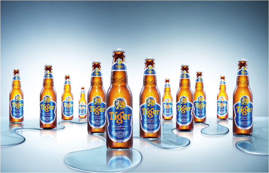 Tiger Beer bottles